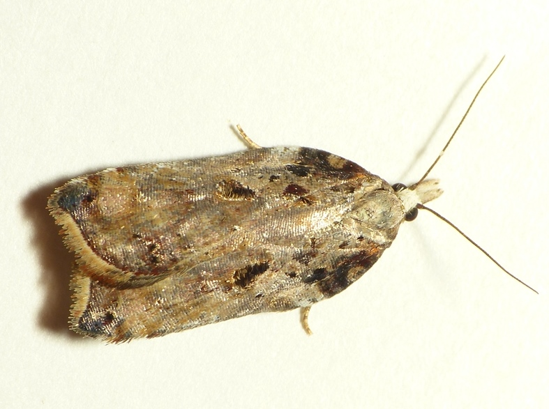 Acleris cristana, location: The Netherlands - Moergestel - Broekzijde